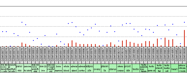 FAM149A Expression 2